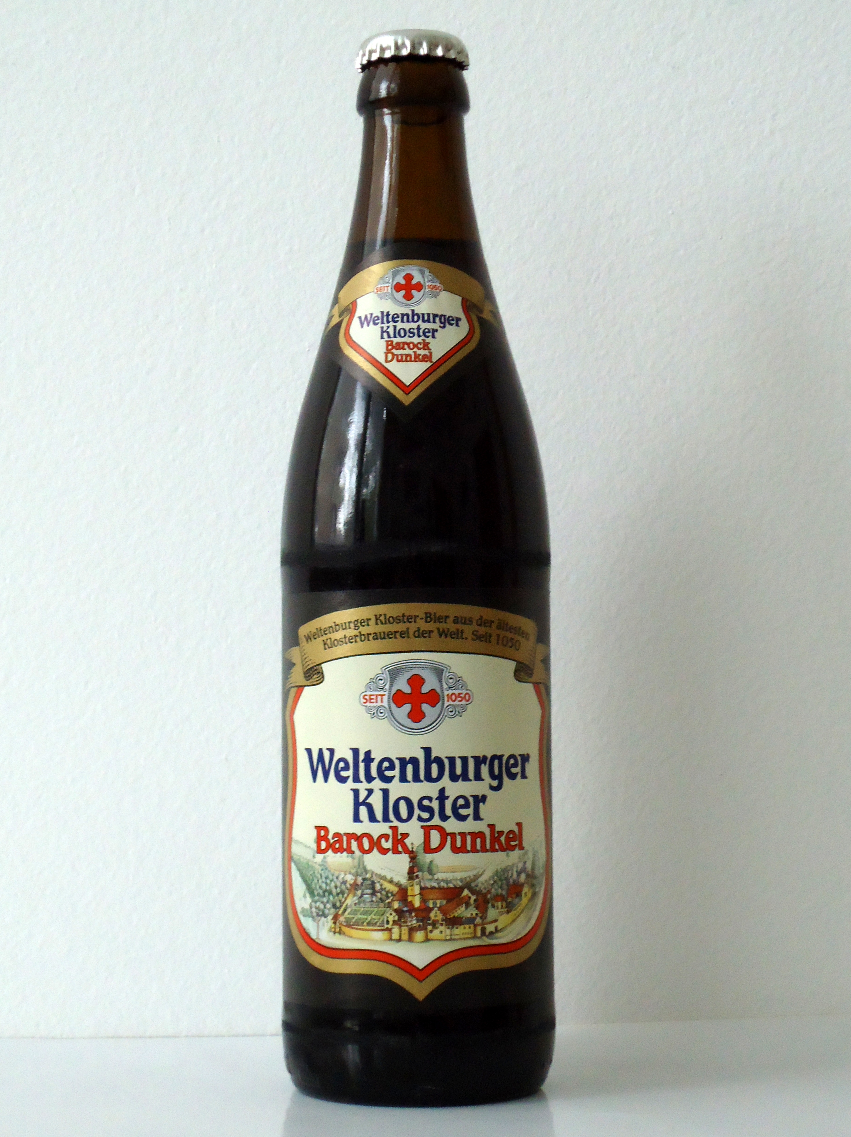 Weltenburger Kloster Barock Dunkel beer